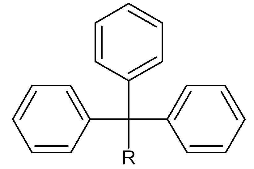 Trityl-group